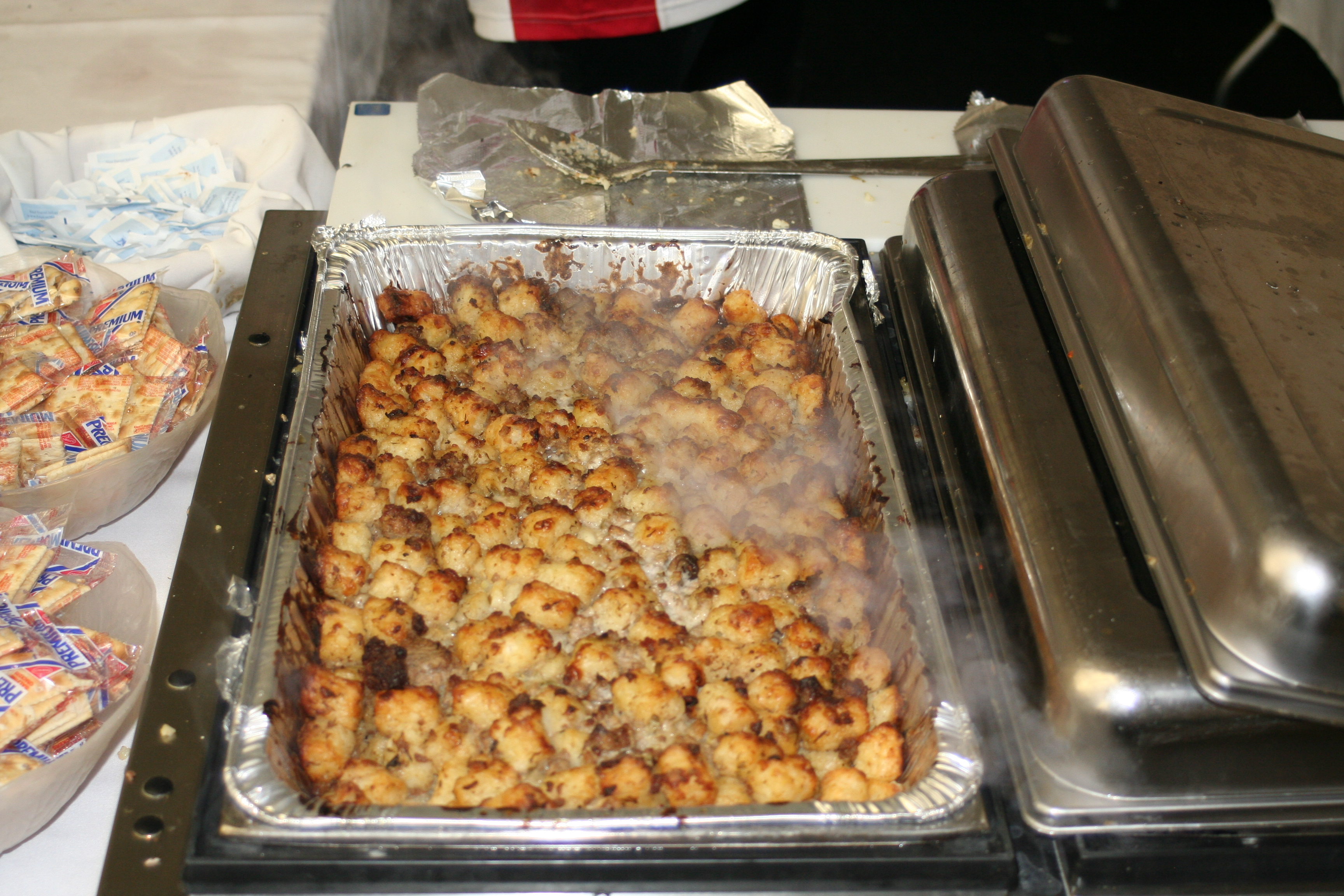 Tater Tot Hot Dish in TDS Metrocom Hotdish Tent during 2008 Saint Paul Winter Carnival.